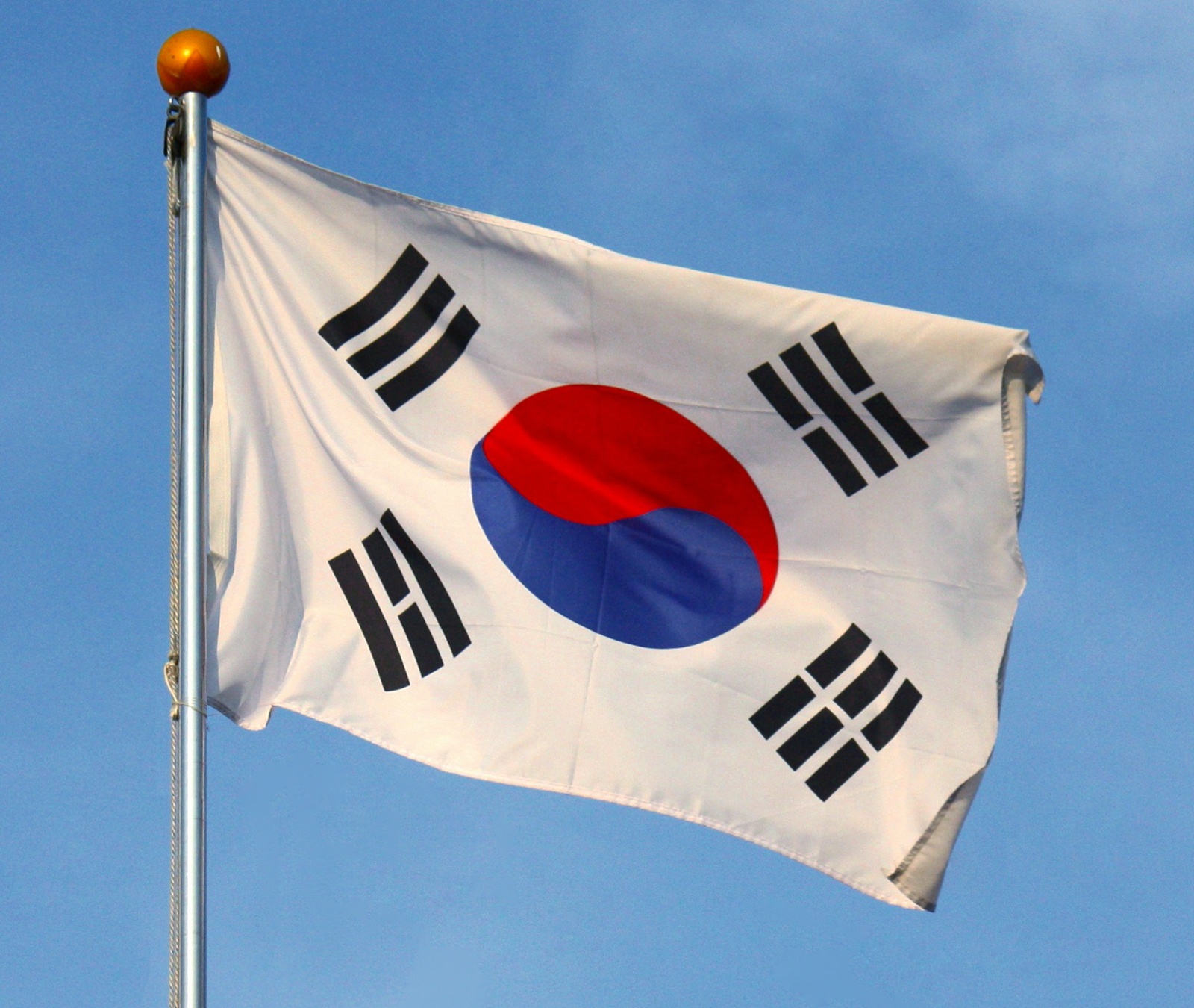 The flag of South Korea (Taegukgi) in flight.